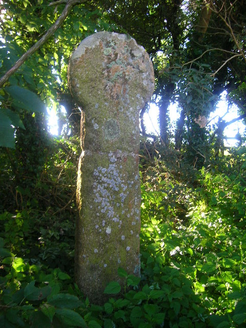 Penwine Cross Overgrown at a road junction.